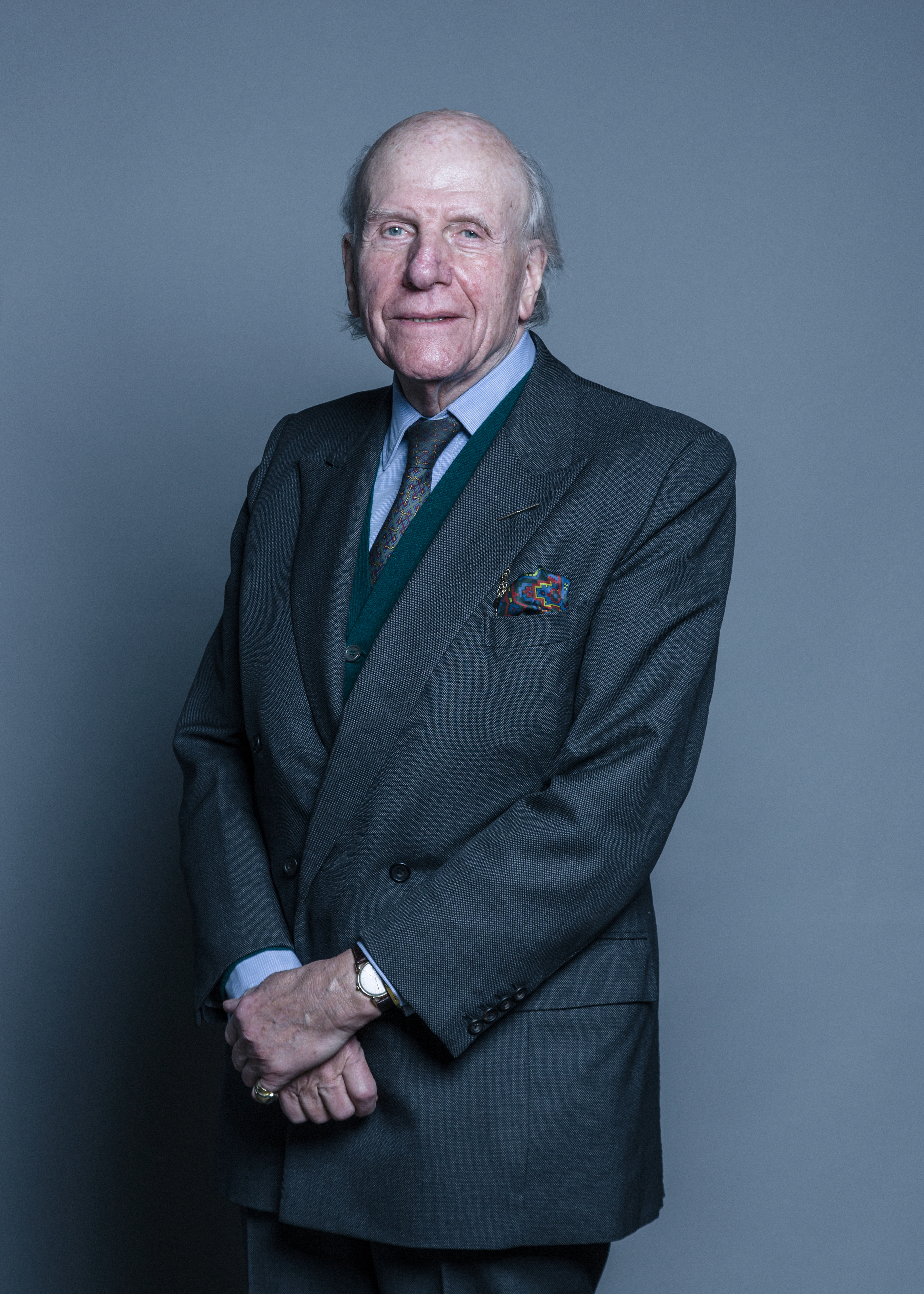 Official portrait of Lord Rowe-Beddoe